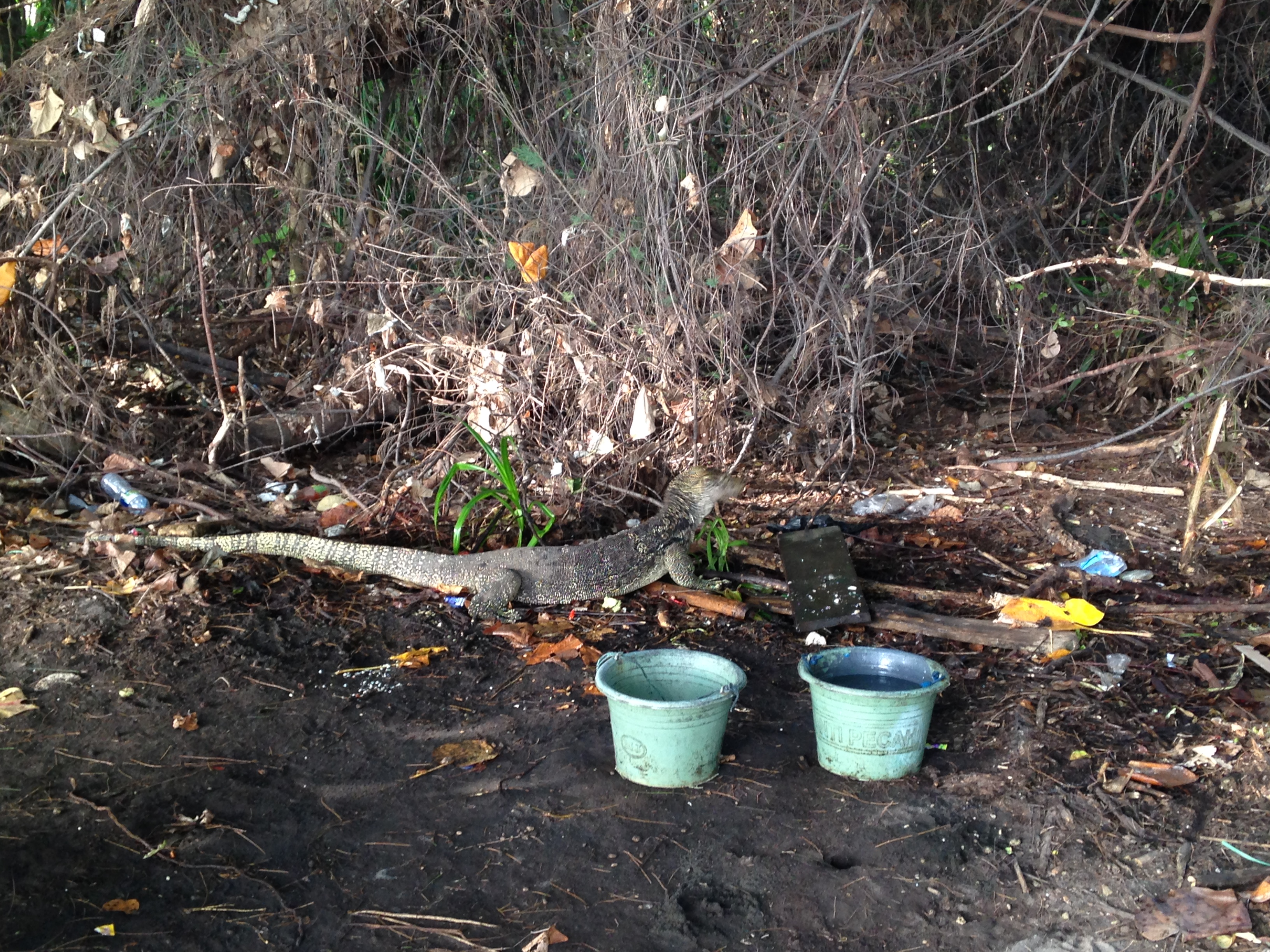 He/She just tried to find some food.